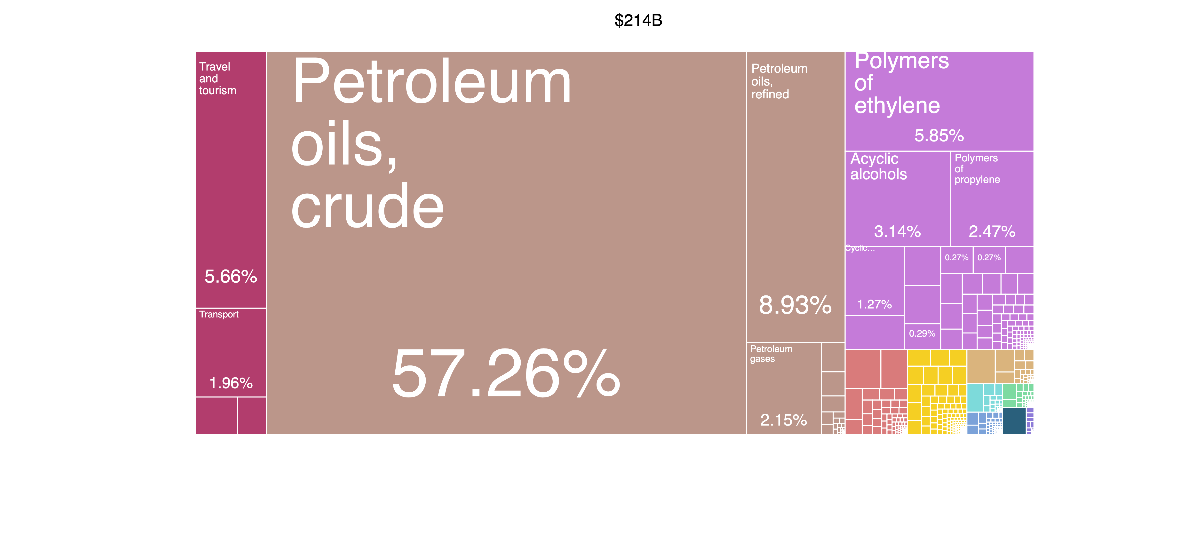 The total value (USD $214B) and nature of the exports of Saudi Arabia.